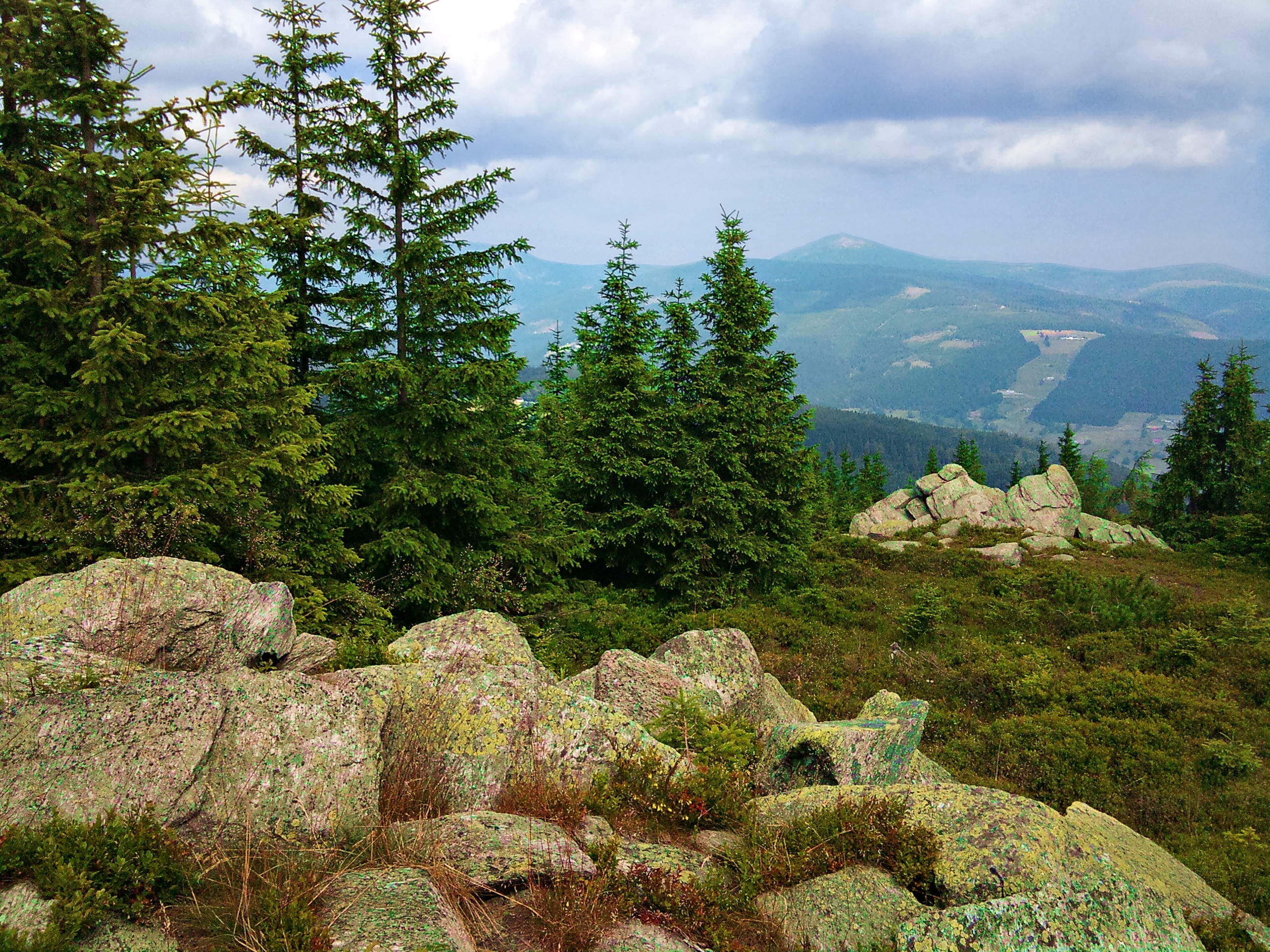 View from mountain Signál in Krkonoše/Giant mountains (1175 m).